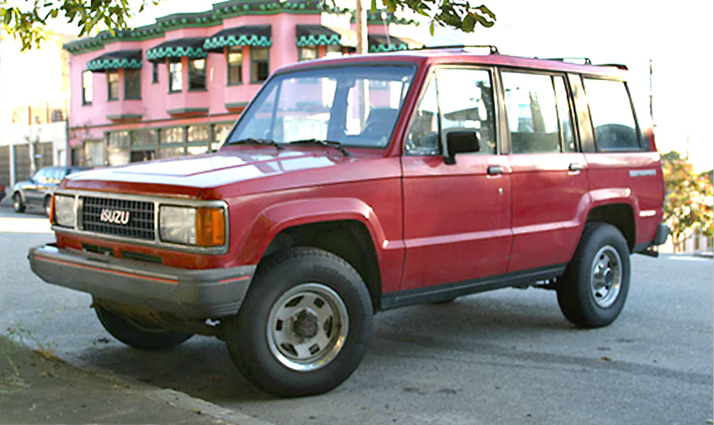 1988 Isuzu Trooper II. Formerly owned by Paul Callahan. Picture by Paul Callahan